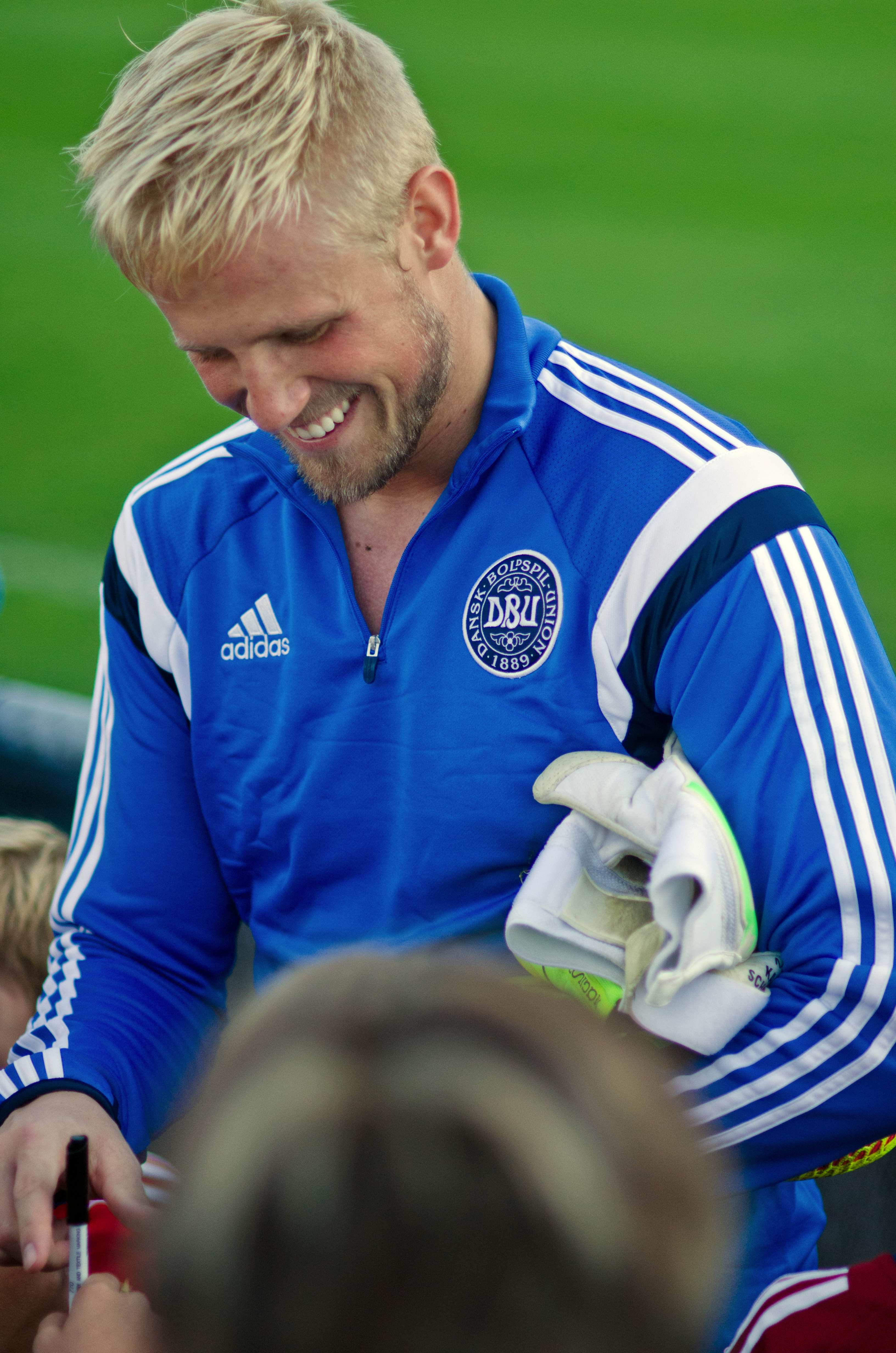 Kasper Schmeichel in training with Denmark national football team.